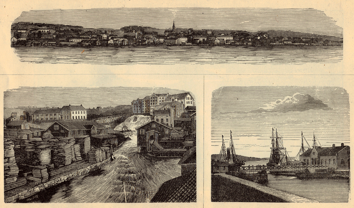 Moss, Norway.